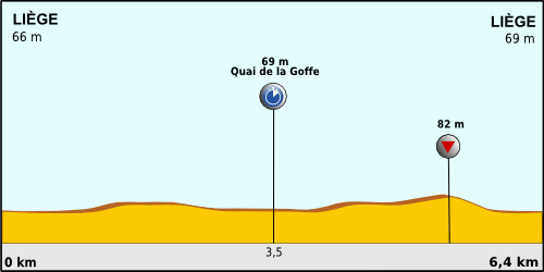 Profil of the Prolog of the Tour de France 2012